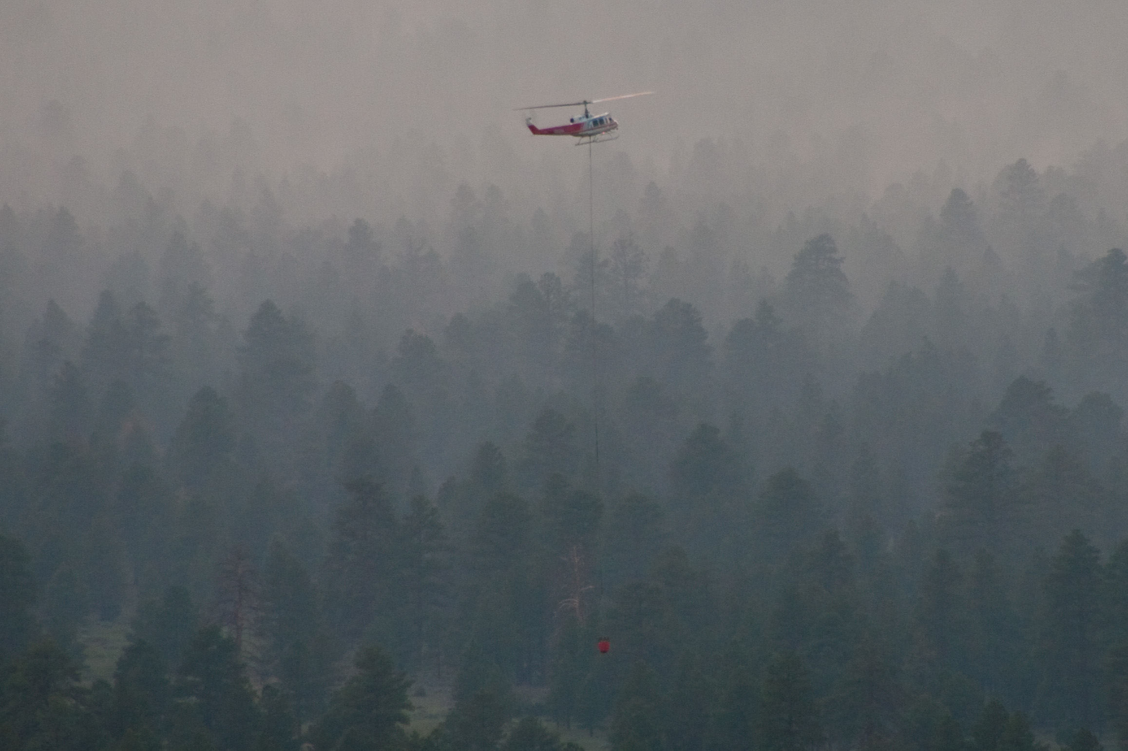 Day 4 of the Schultz Fire, Flagstaff, Arizona. At this point, the fire has consumed over 12,000 acres, including parts of the Schultz Pass area and northern flanks of the Dry Lake Hills, and most of the eastern side of the San Francisco Peaks.